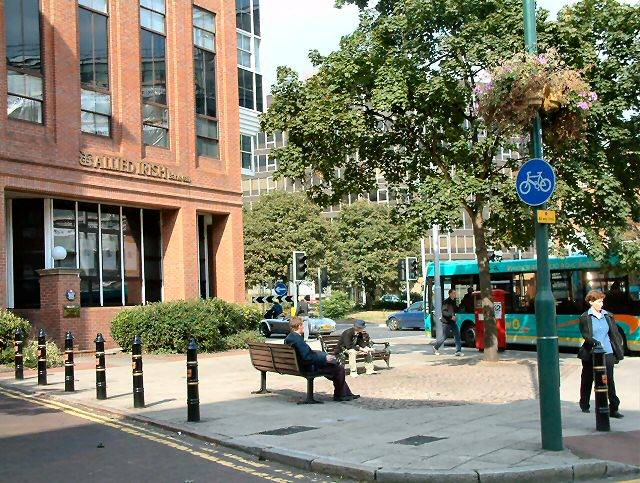 Allied Irish Bank Benches outside the Allied Irish Bank on Maid Marion Way.